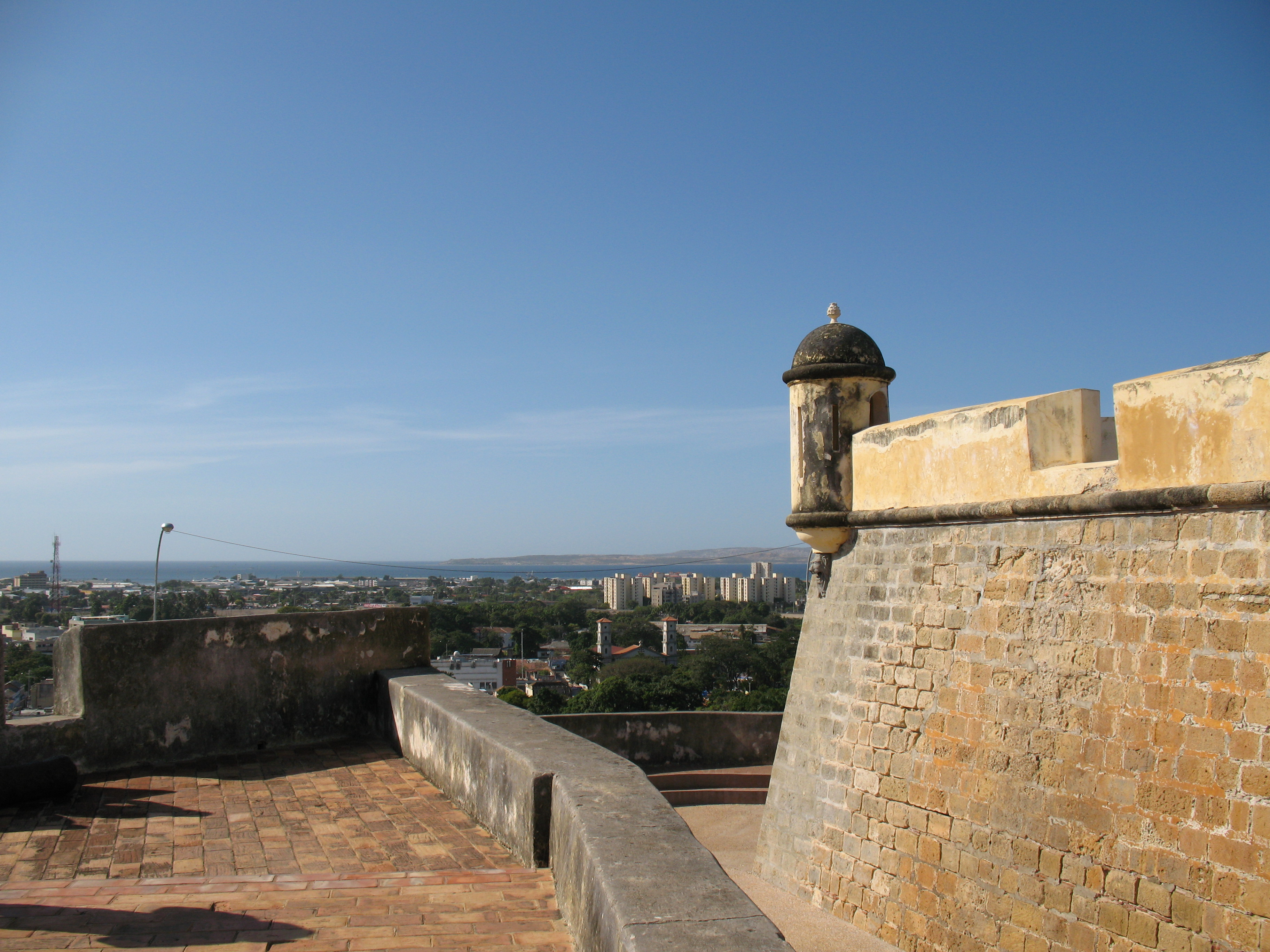 Fortress of Cumaná, Sucre, Venezuela